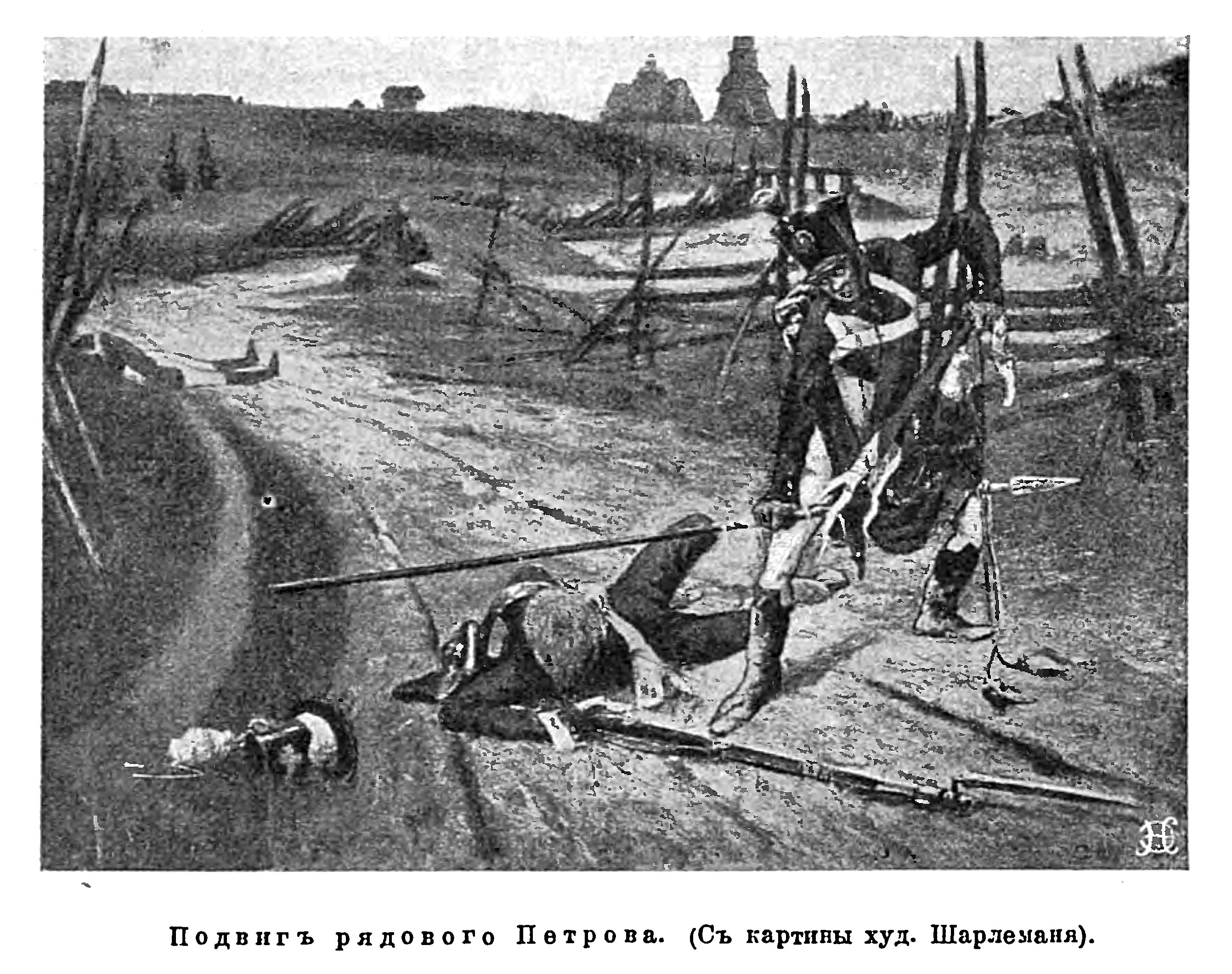 Finnish War